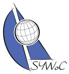 Student Yachting World Cup logo